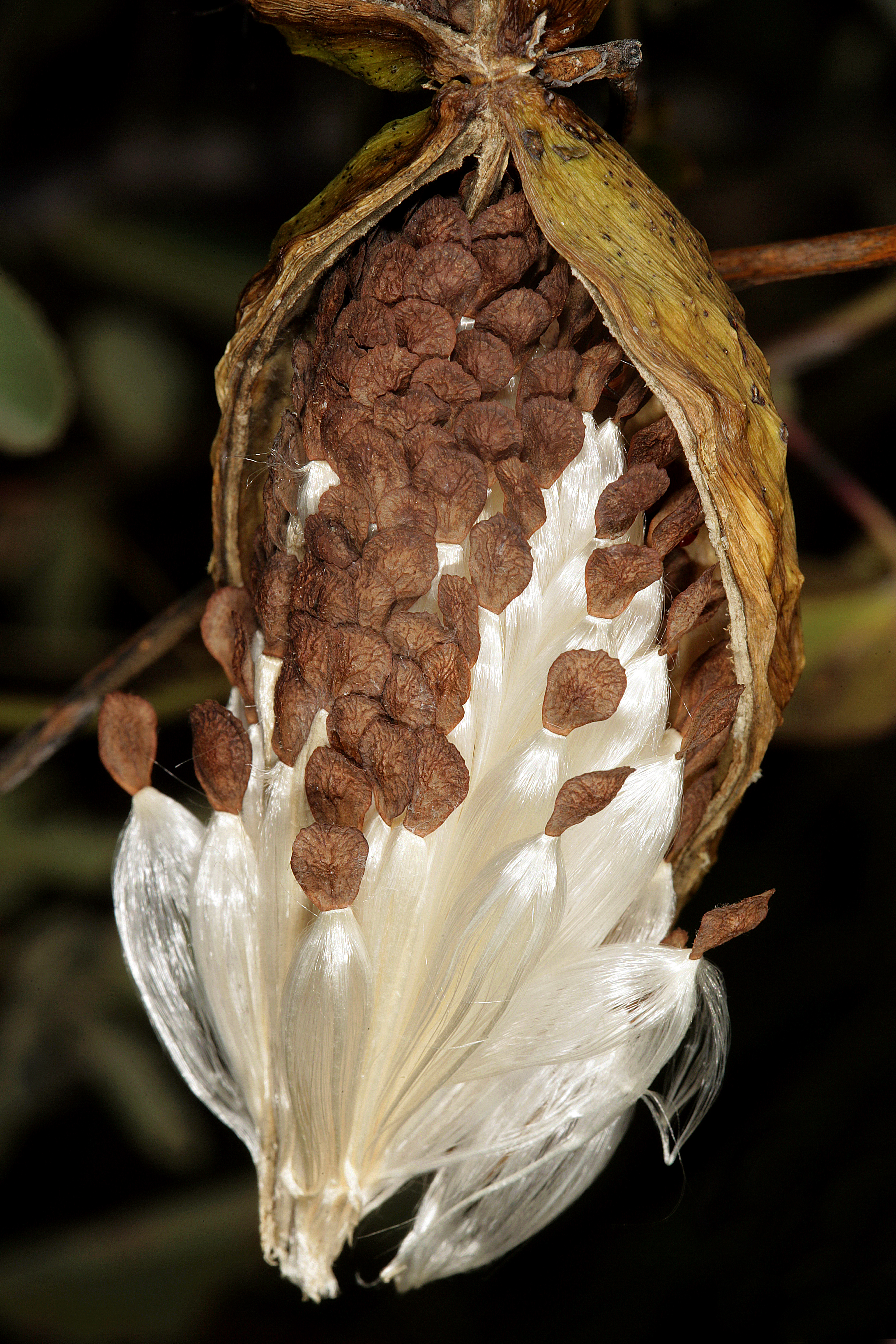 Cynanchum insipidum, dehisced fruit releasing seeds, each tipped by a tuft of silky hairs; hills around Hartbeesfontein, North West, South Africa